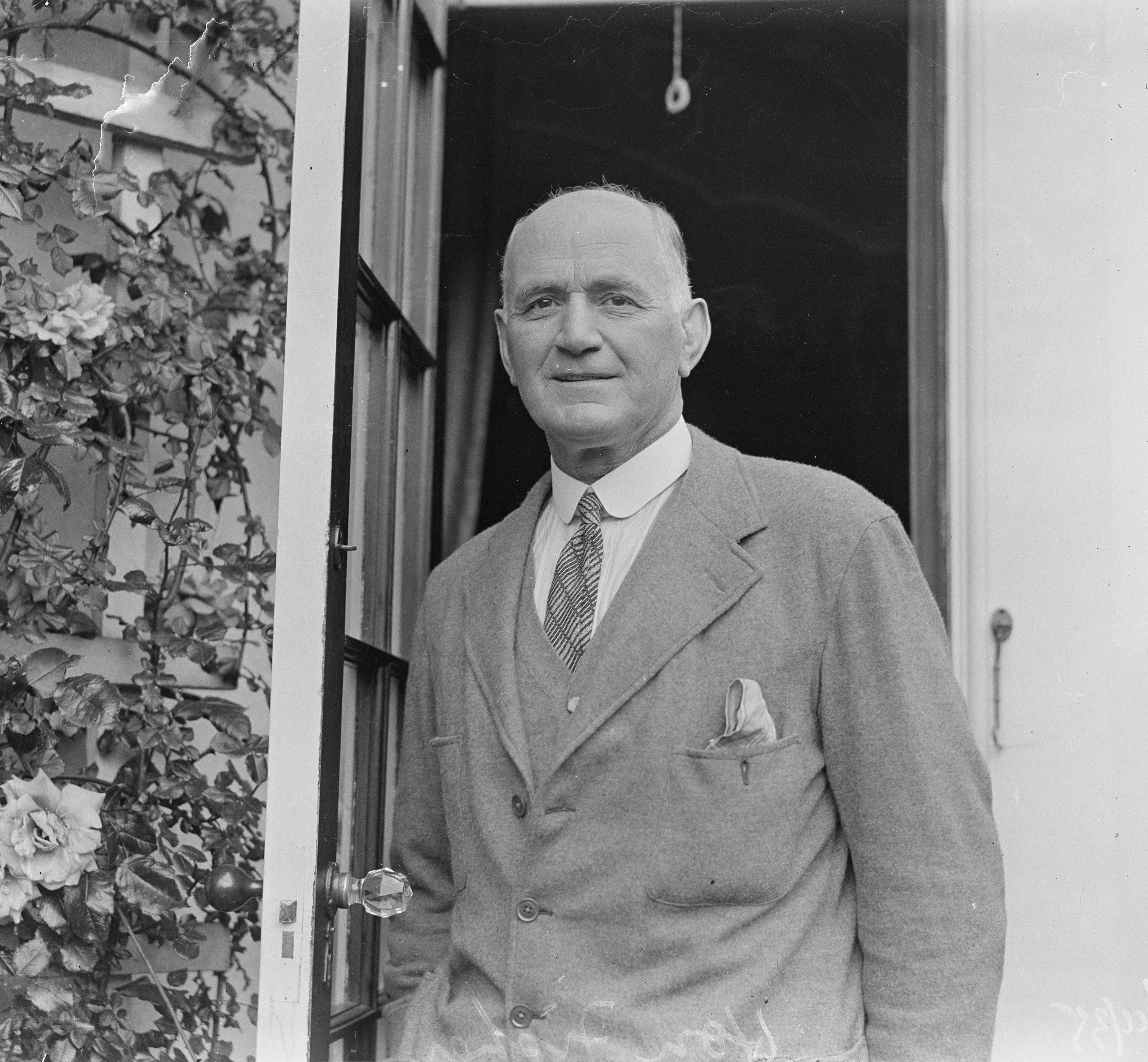 Francis Marion Bates Fisher, photographed circa 26 November 1935 by an Evening Post staff photographer.